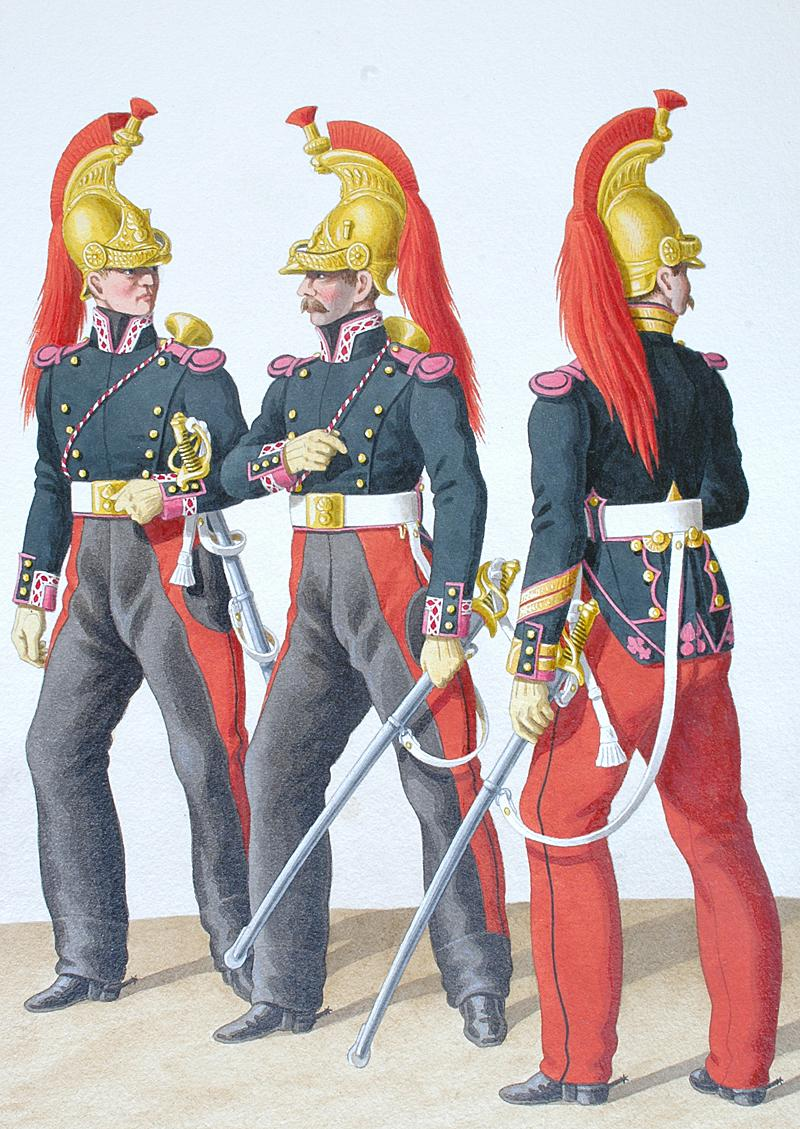 Trumpets of the 4th French Dragoons Rgt during the Restauration